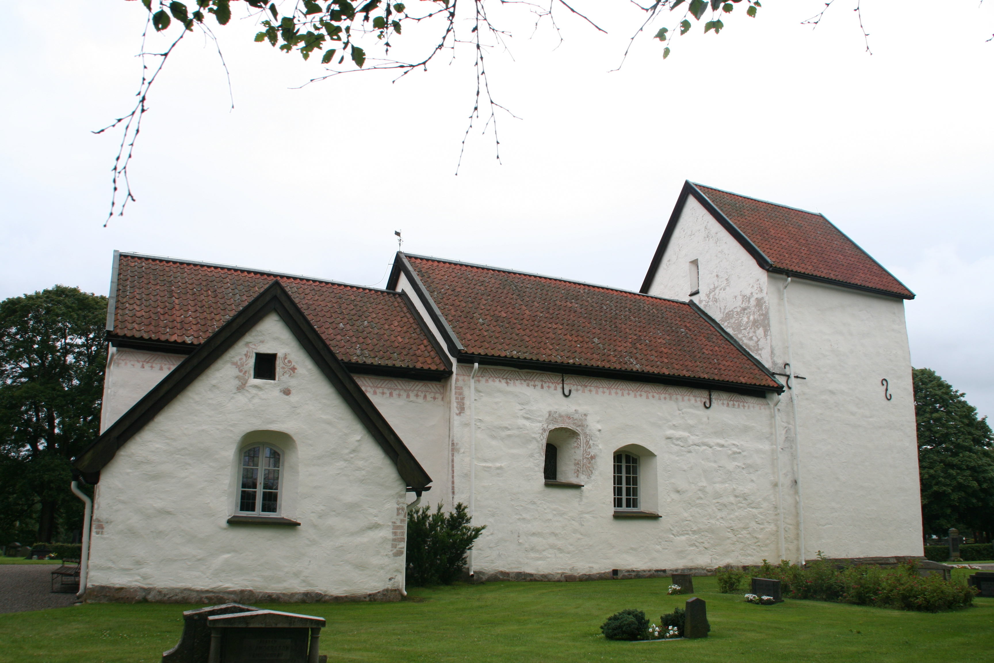 Norra Ljunga Church